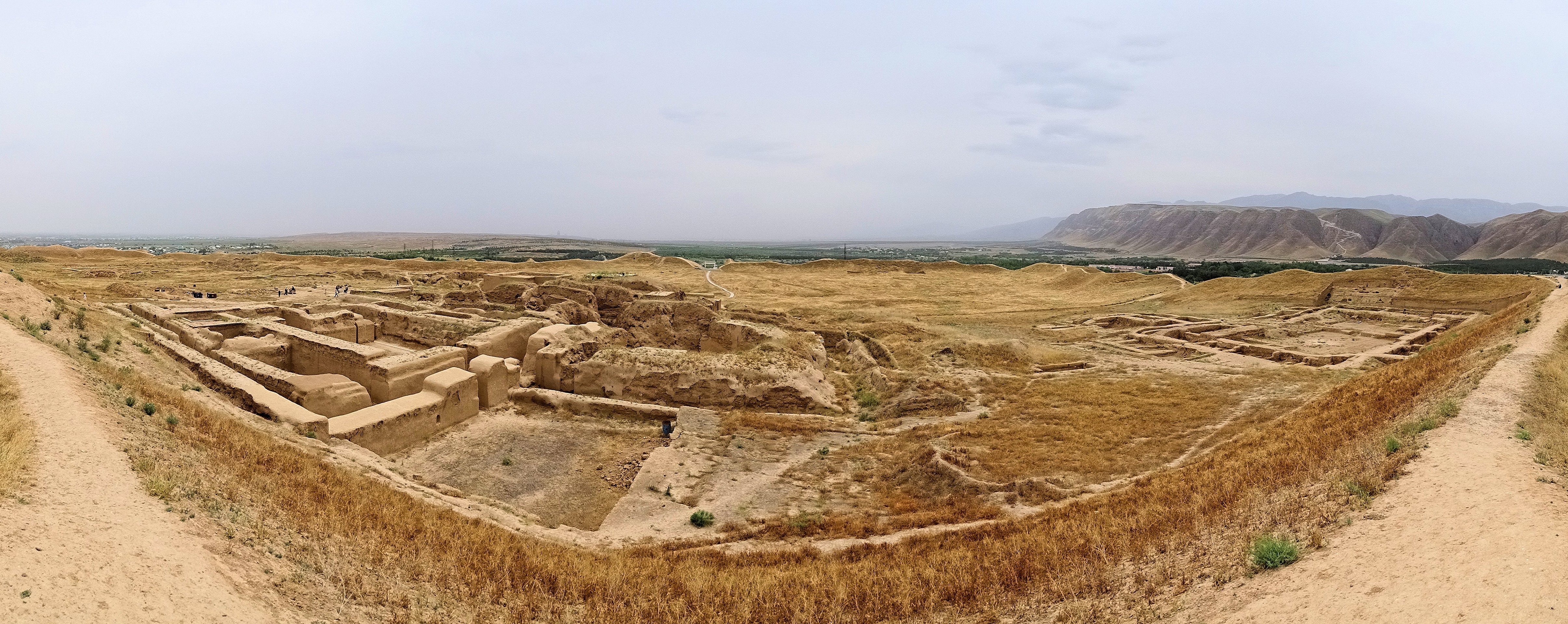 A view of almost the entire Nisa complex as seen from the western corner of it all.